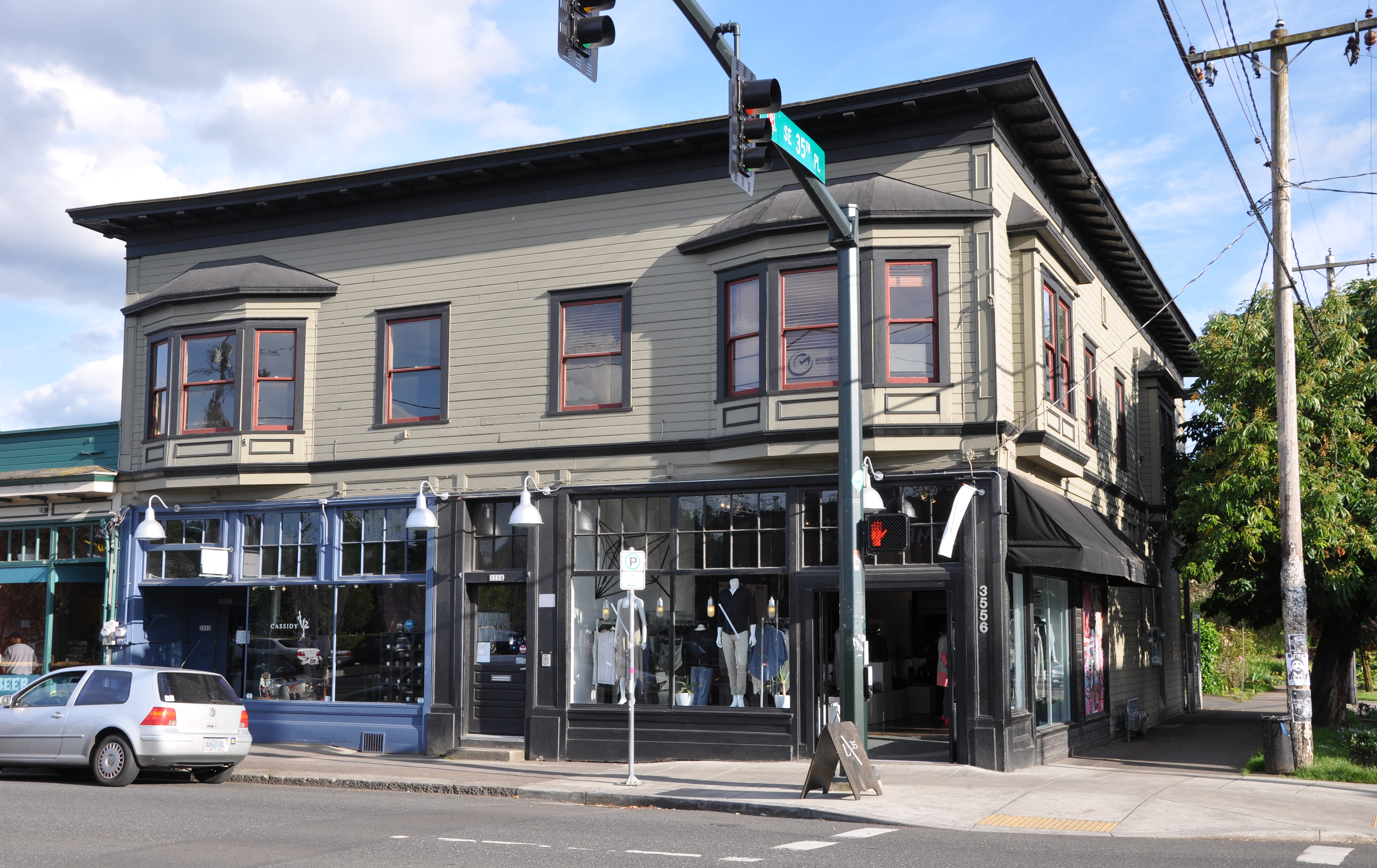 Henry Sensel Building in Portland in the U.S. state of Oregon. The structure is listed on the National Register of Historic Places.